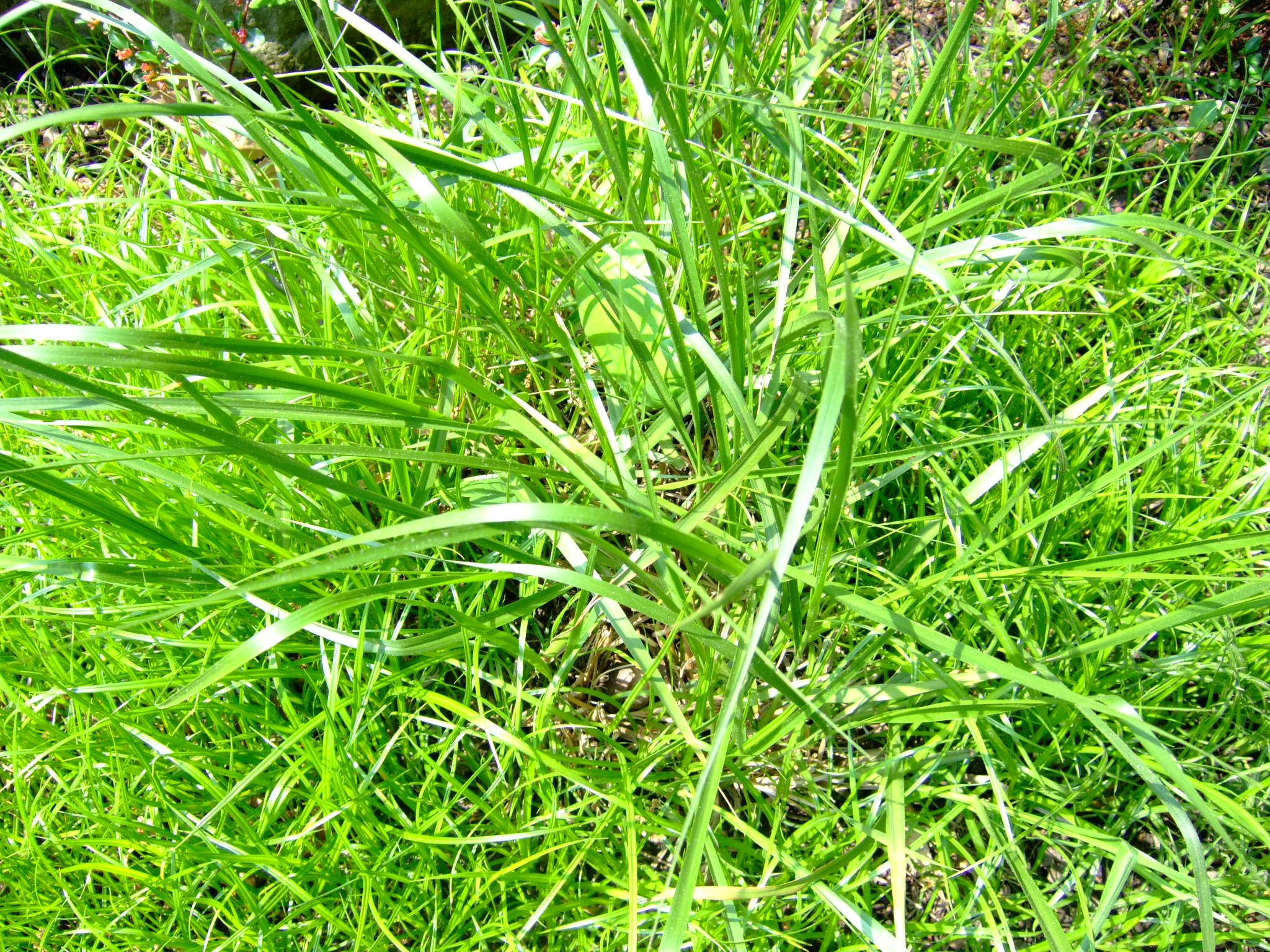 Cumberland sandgrass, Calamovilfa arcuata, growing at the Missouri Botanical Garden. According to the Garden's information sign, this rare species was discovered in 1970 and is a candidate for federal listing. It has an unusual disjunct distribution and has been found only in three counties of southeastern Oklahoma and at one site in Tennessee, where it grows in or along streams on gravel or sandbars.